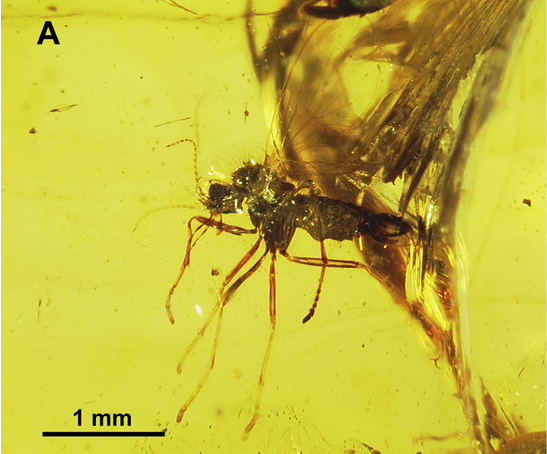 Protopsychodinae: (A) Datzia bispina ♂, Holotype specimen.